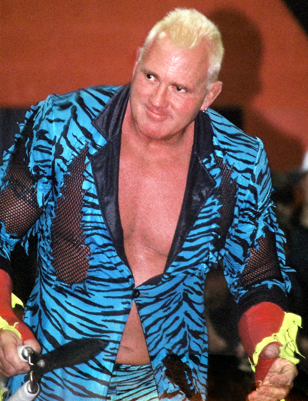 Professional wrestler Brutus Beefcake at Franklin, PA in 2010.